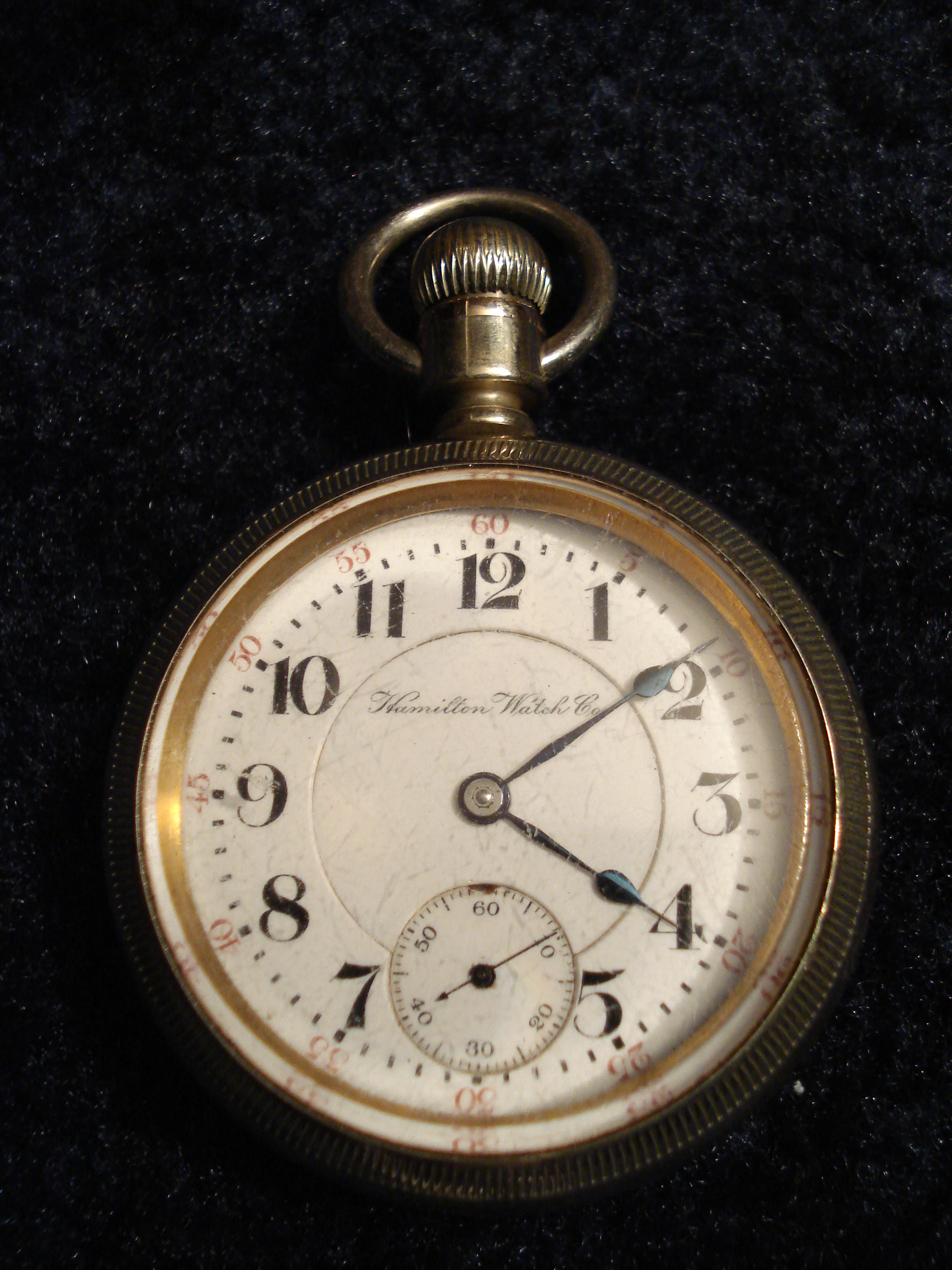 Hamilton pocketwatch